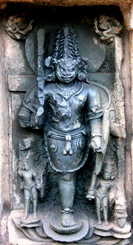 Ekapada Rudra ~ [ UrdhvaLinga ] ~ Chaunsat Yogini Deul ~ 10th century ~ Hirapur, ORISSA